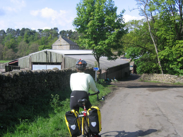 Randalholme The fact that the name of this farmstead is shown in antique font on the OS map suggests that it is of ancient origin. The blue sign by the tree is for National Cycle Route 68 which follows this minor road out of Alston.